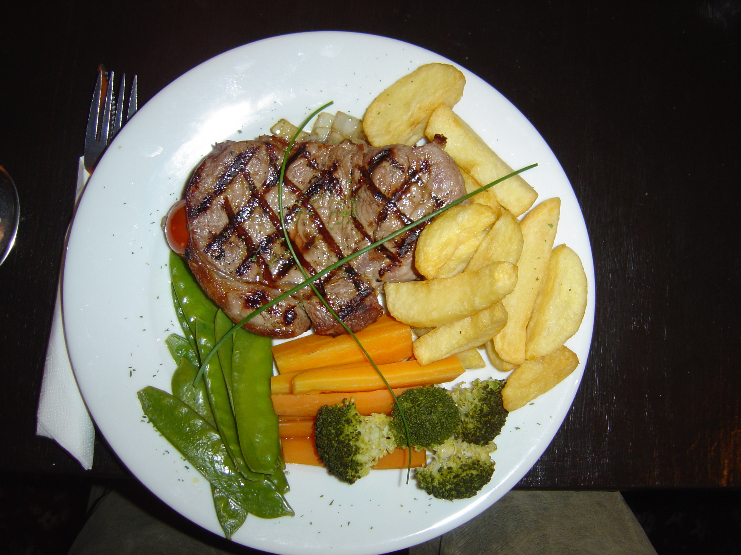 10 oz sirloin steak with chips and vegetables. Photograph by user:SpaceMonkey